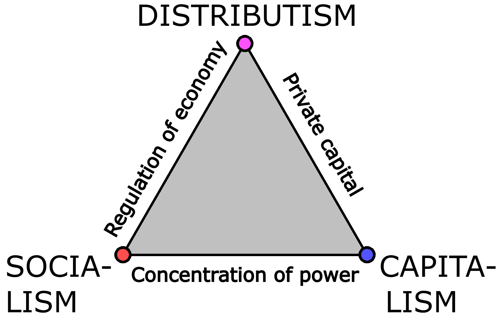 This graphic presentation describes how socialism, capitalism and distributism are related to each other.